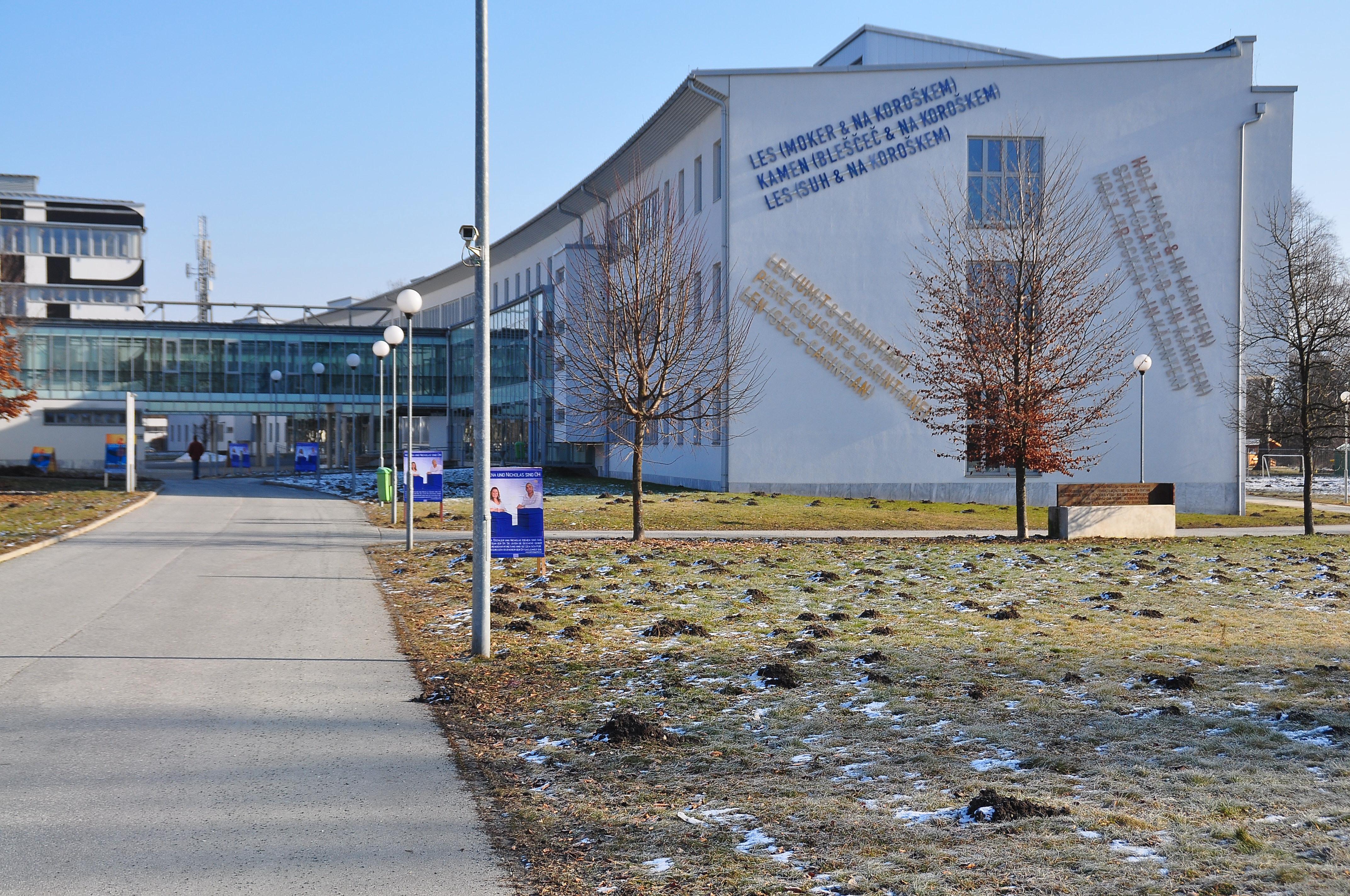 West view at the university for “Bildungswissenschaften” in the 12th district “Sankt Martin” of Klagenfurt on the Lake Woerth, Carinthia, Austria